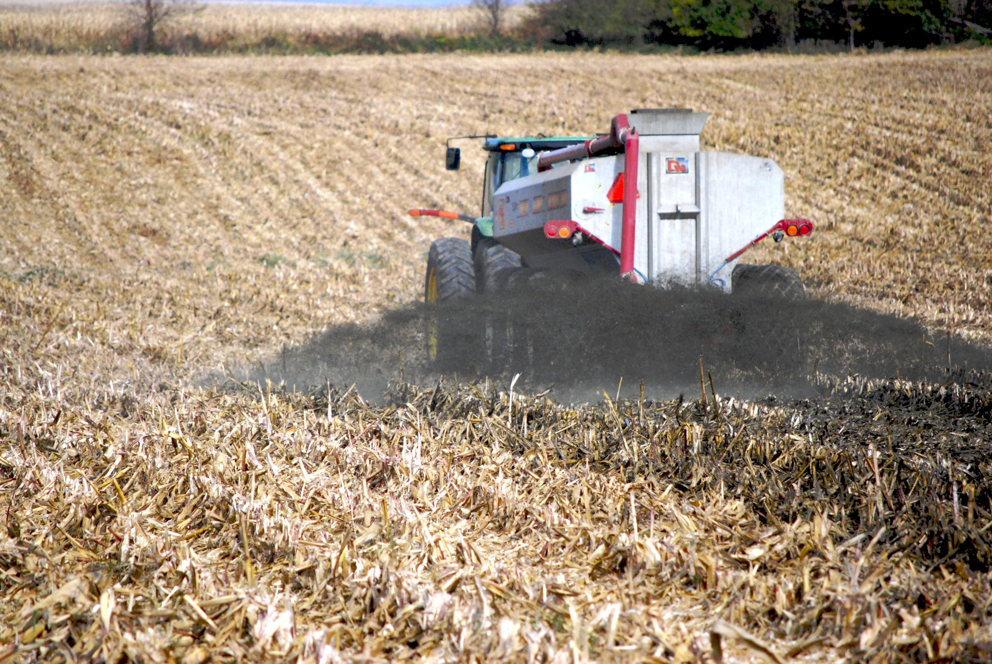 Spreading liquid manure on a harvested corn field